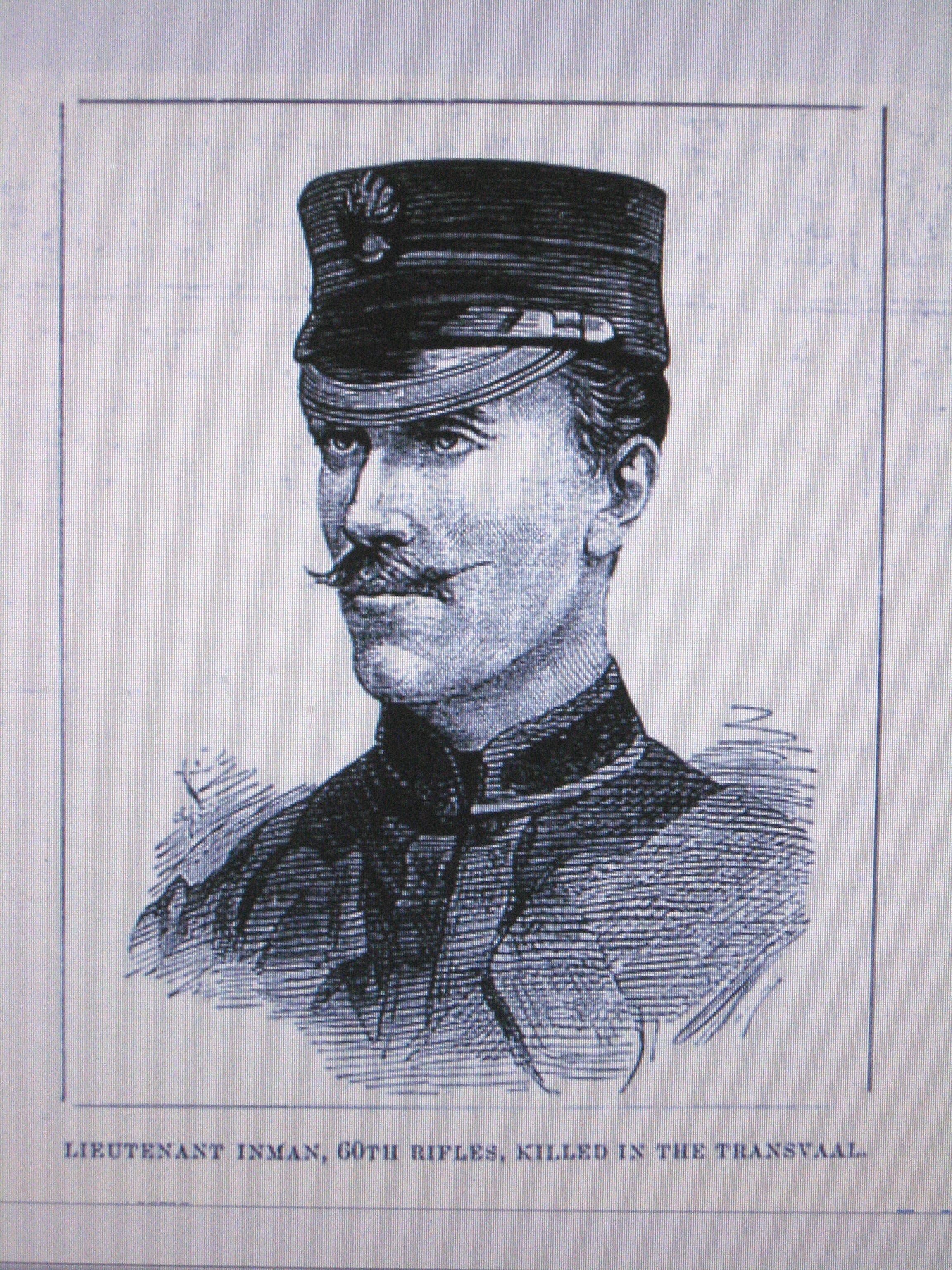 Portrait engraving from photograph, and then re-photographed.